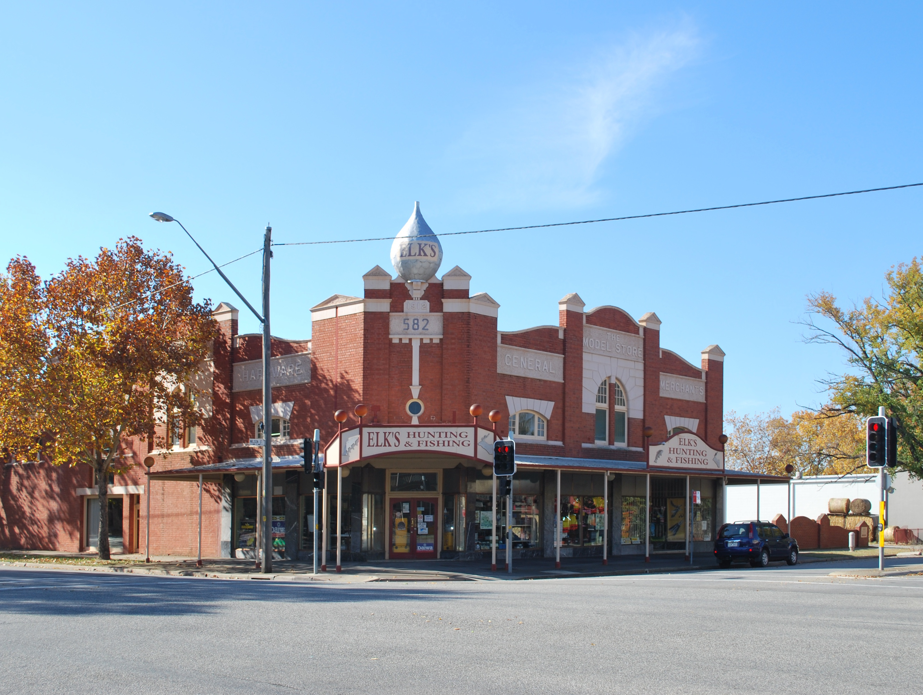 The former Model Store at Albury, New South Wales, now an outdoors shop